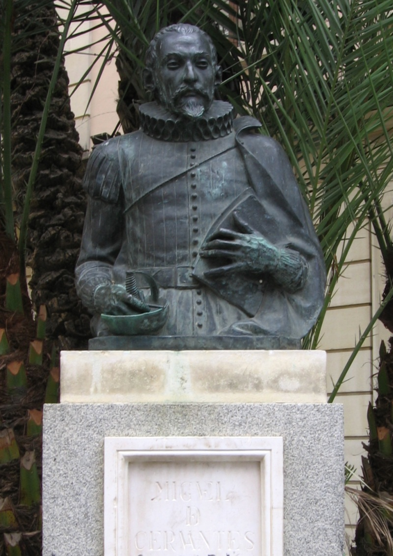 Sevilla, Spain - bust of Miguel de Cervantes (erected 1974)